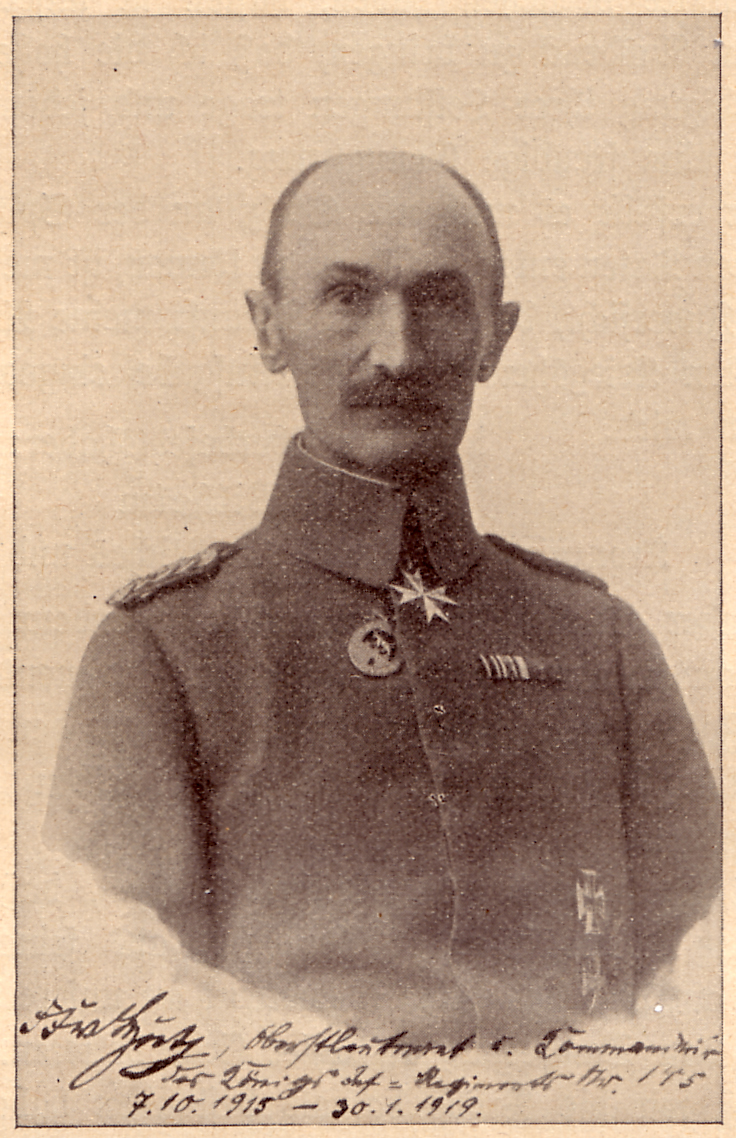 German Lieutenant-Colonel Friedrich Franz von Huth (WW1)